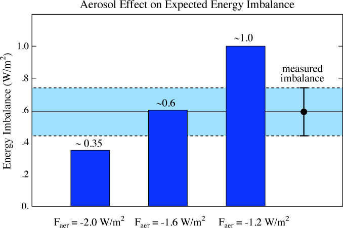 Expected Earth energy imbalance for three choices of aerosol climate forcing. Measured imbalance, close to 0.6 W/m2, implies that aerosol forcing is close to -1.6 W/m2. (Credit: NASA/GISS)